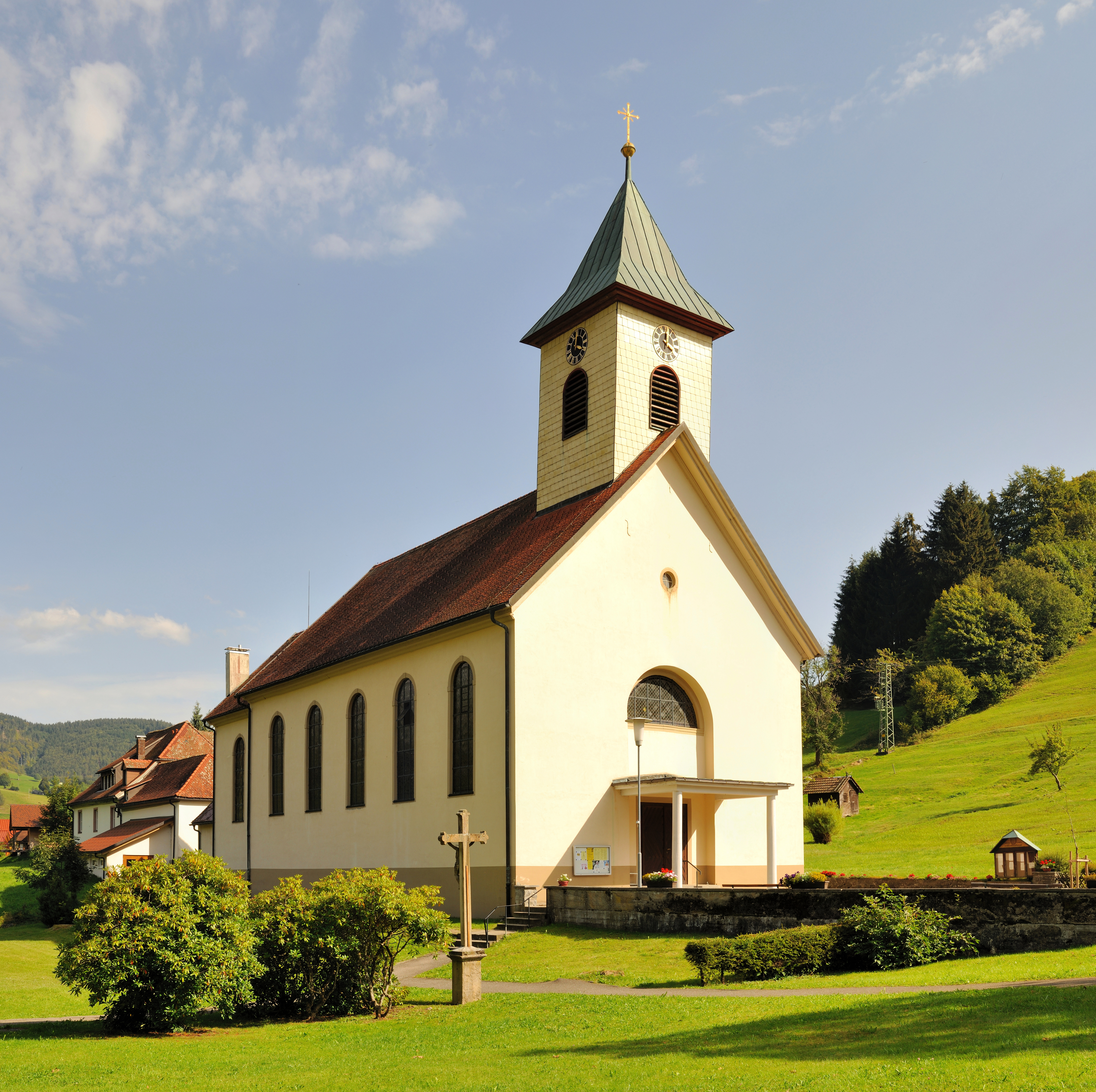 Wieden: All Saints Church